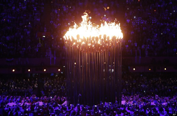 The Olympic flame in the London 2012 games